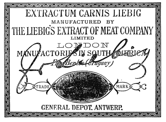 Trademark 185, Registered by the Liebig's Extract of Meat Company for "Extractum Carnis Liebig" in 1876. This is the first trademark to be registered by the company.